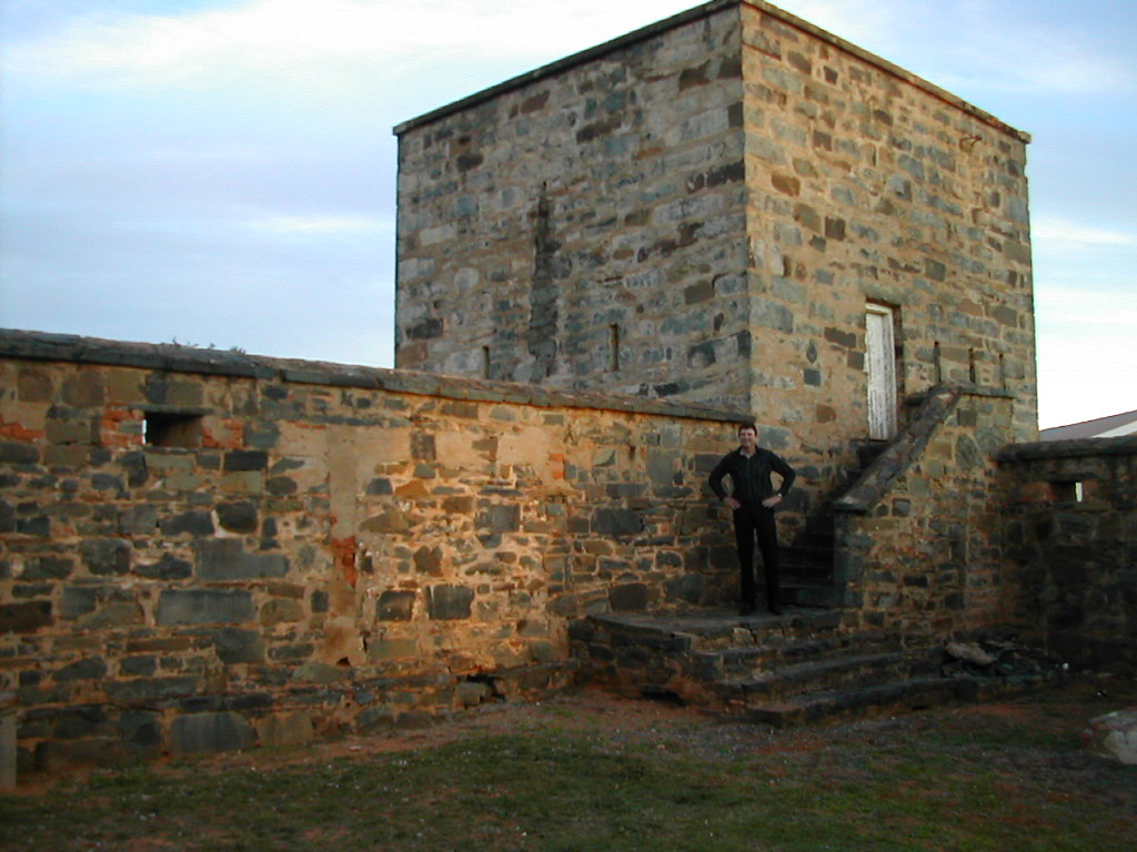 Fort Brown (Hermanus Kraal) - one of a chain of forts built in 1835 on the Eastern Cape frontier, South Africa. Photographed 2006-06-15 F.F. Jacot-Guillarmod